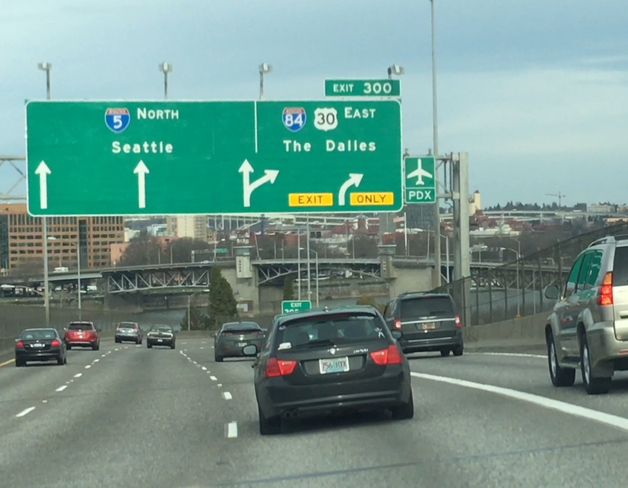 Interstate 5 Northbound junction with Interstate 84 Eastbound